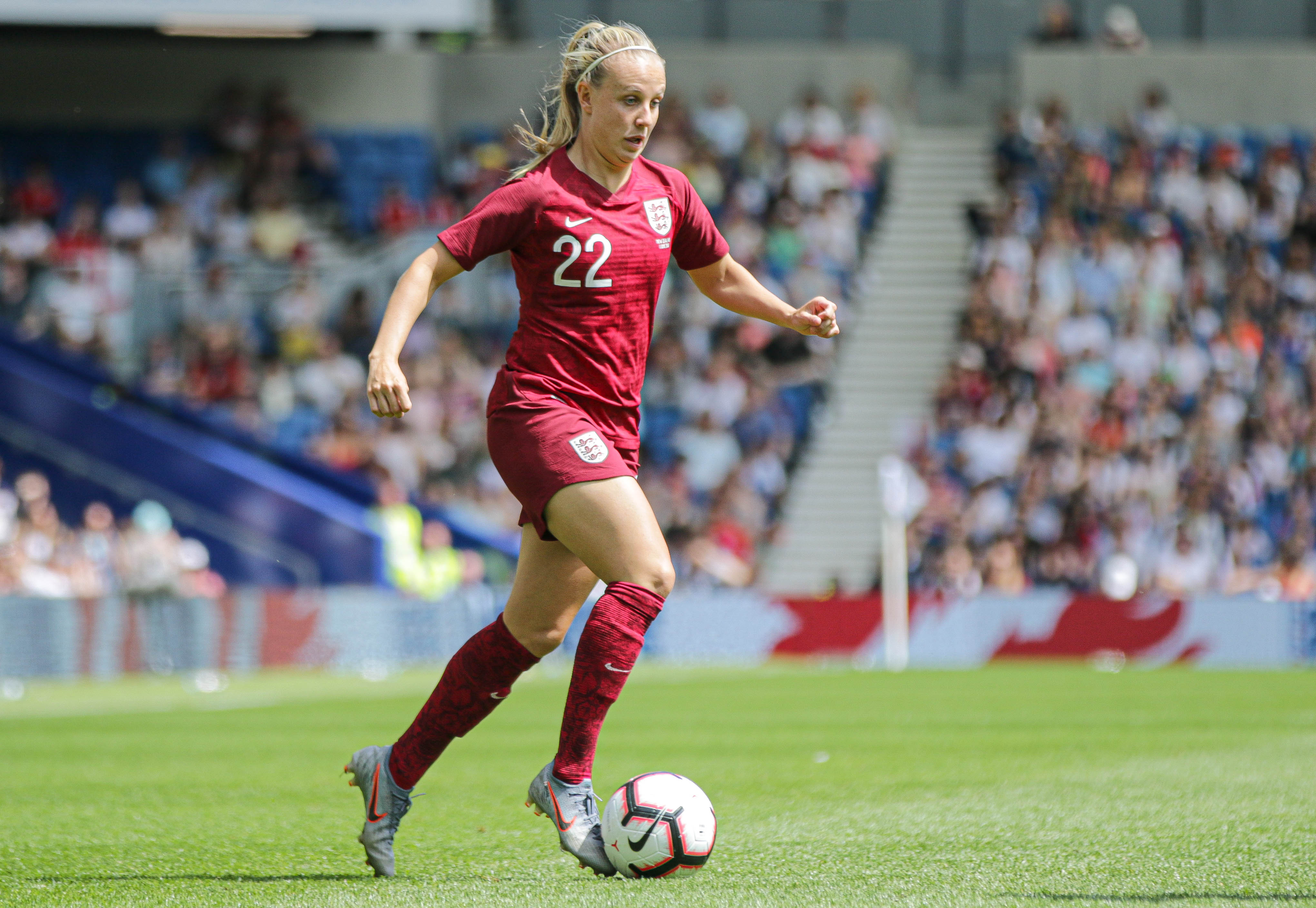 England Women 0 New Zealand Women 1 01 06 2019-840.jpg